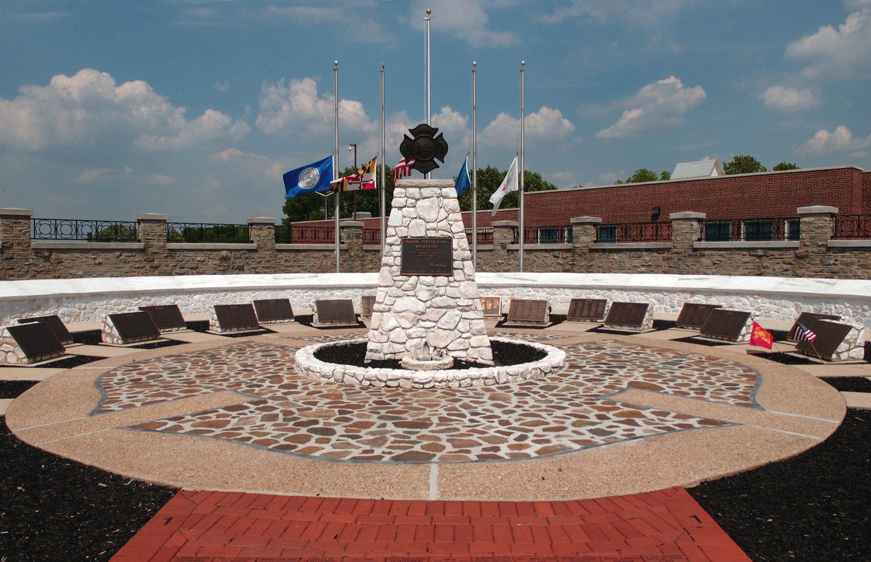 Emmitsburg, Maryland, June 1, 2005 -- The Fallen Firefighters Memorial. Photo by Bill Koplitz/FEMA photo